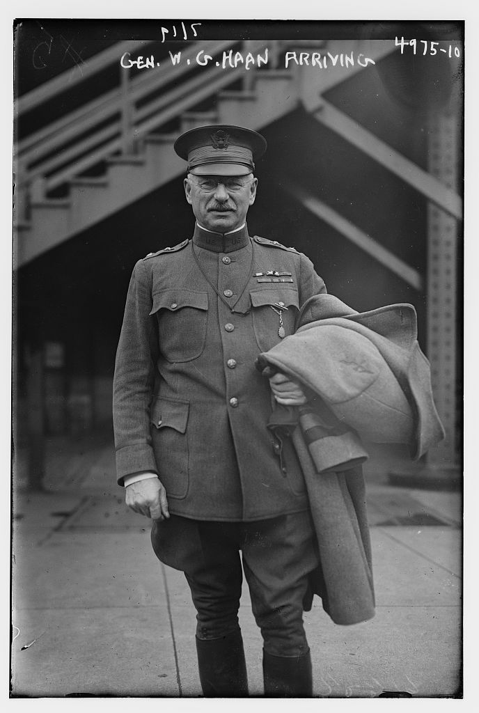 William George Haan in 1919